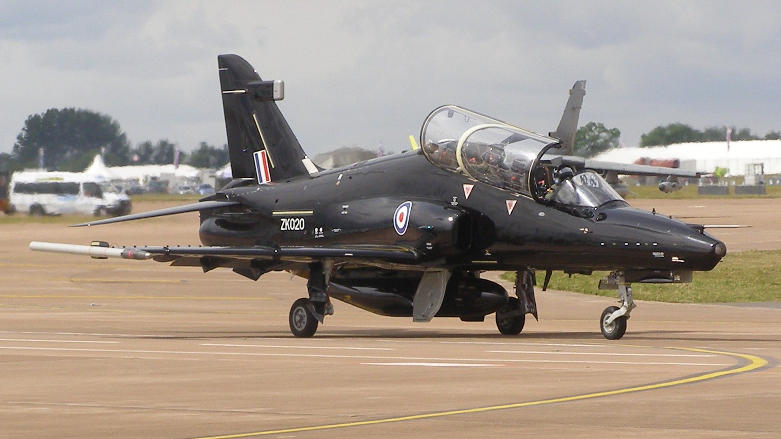 BAE Hawk T2 (serial number ZK020) of the Royal Air Force at the Royal International Air Tattoo 2009 at RAF Fairford, England.